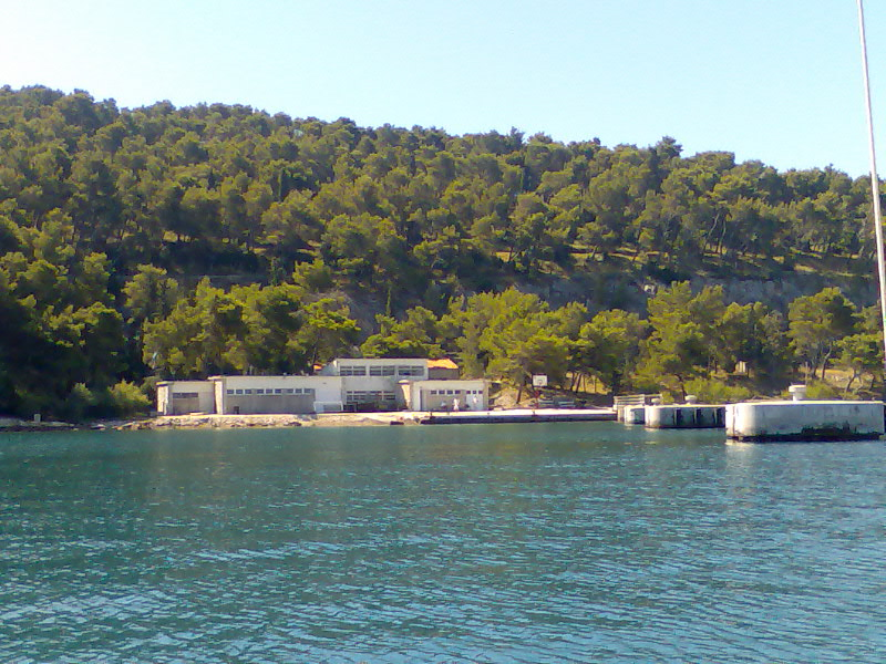 Navy base for demagnetization of ships.